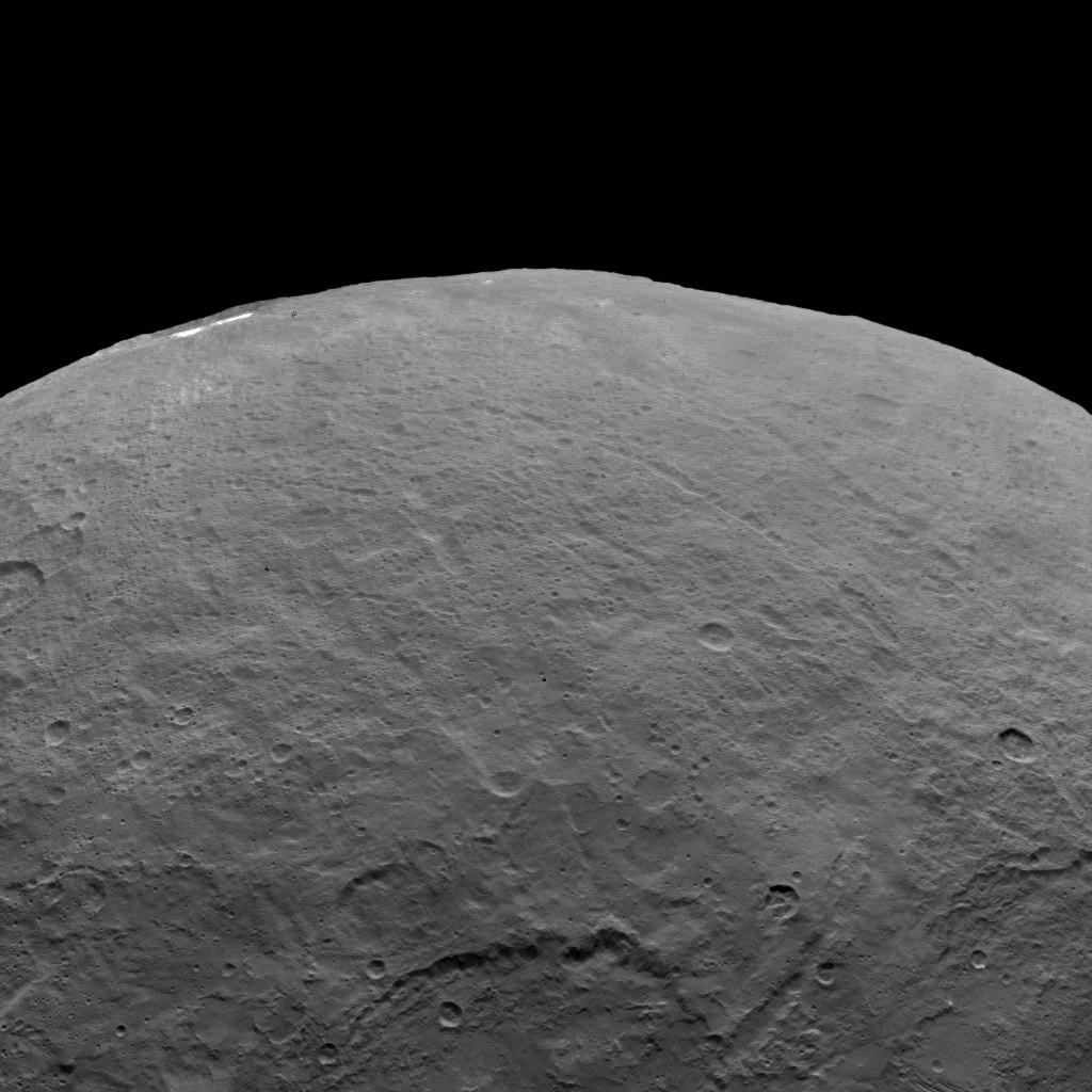 PIA19576: Dawn Survey Orbit Image 8 This image, taken by NASA's Dawn spacecraft, shows dwarf planet Ceres from an altitude of 2,700 miles (4,400 kilometers). The image, with a resolution of 1,400 feet (410 meters) per pixel, was taken on June 6, 2015. Dawn's mission is managed by JPL for NASA's Science Mission Directorate in Washington. Dawn is a project of the directorate's Discovery Program, managed by NASA's Marshall Space Flight Center in Huntsville, Alabama. UCLA is responsible for overall Dawn mission science. Orbital ATK, Inc., in Dulles, Virginia, designed and built the spacecraft. The German Aerospace Center, the Max Planck Institute for Solar System Research, the Italian Space Agency and the Italian National Astrophysical Institute are international partners on the mission team. For a complete list of acknowledgments, For more information about the Dawn mission, visit